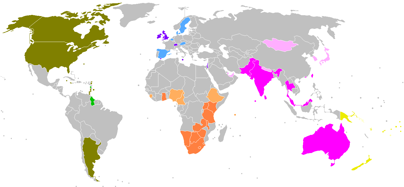 Members of International Netball Federations (2012) dark colors - full members light colors - associate members